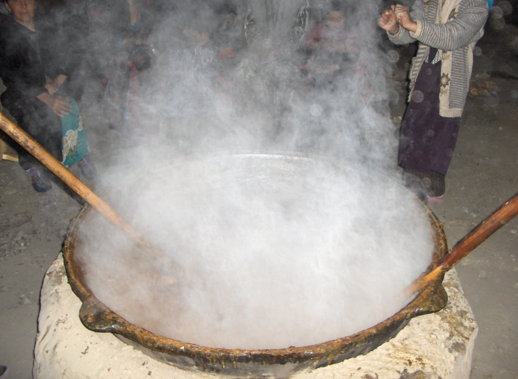 Sumalak a meal which is cooked during Navruz holiday in Tajikistan and other Central Asian countries. Ibrahim Rustamov